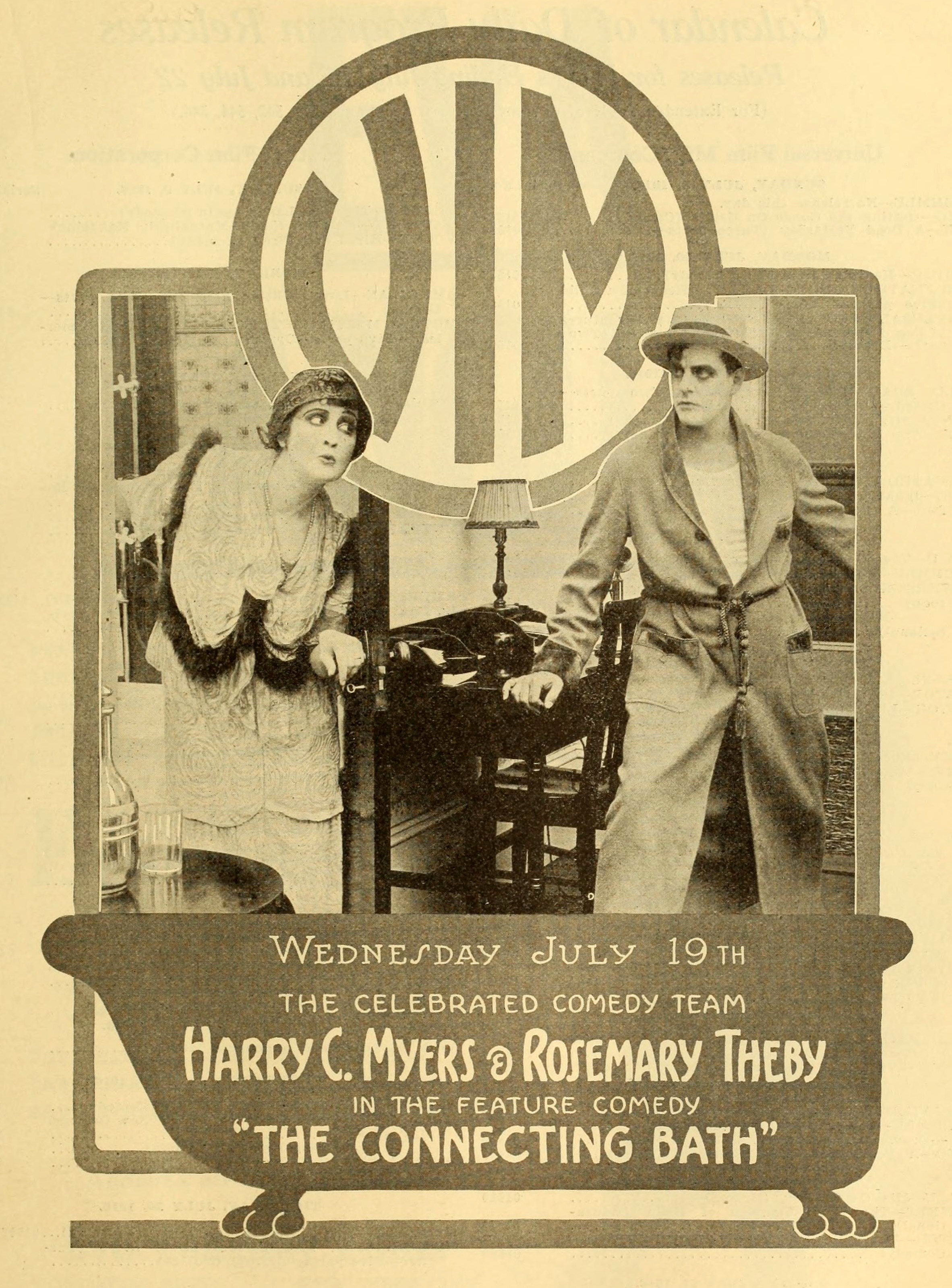 Advertisement in The Moving Picture World for the film The Connecting Bath (1916).